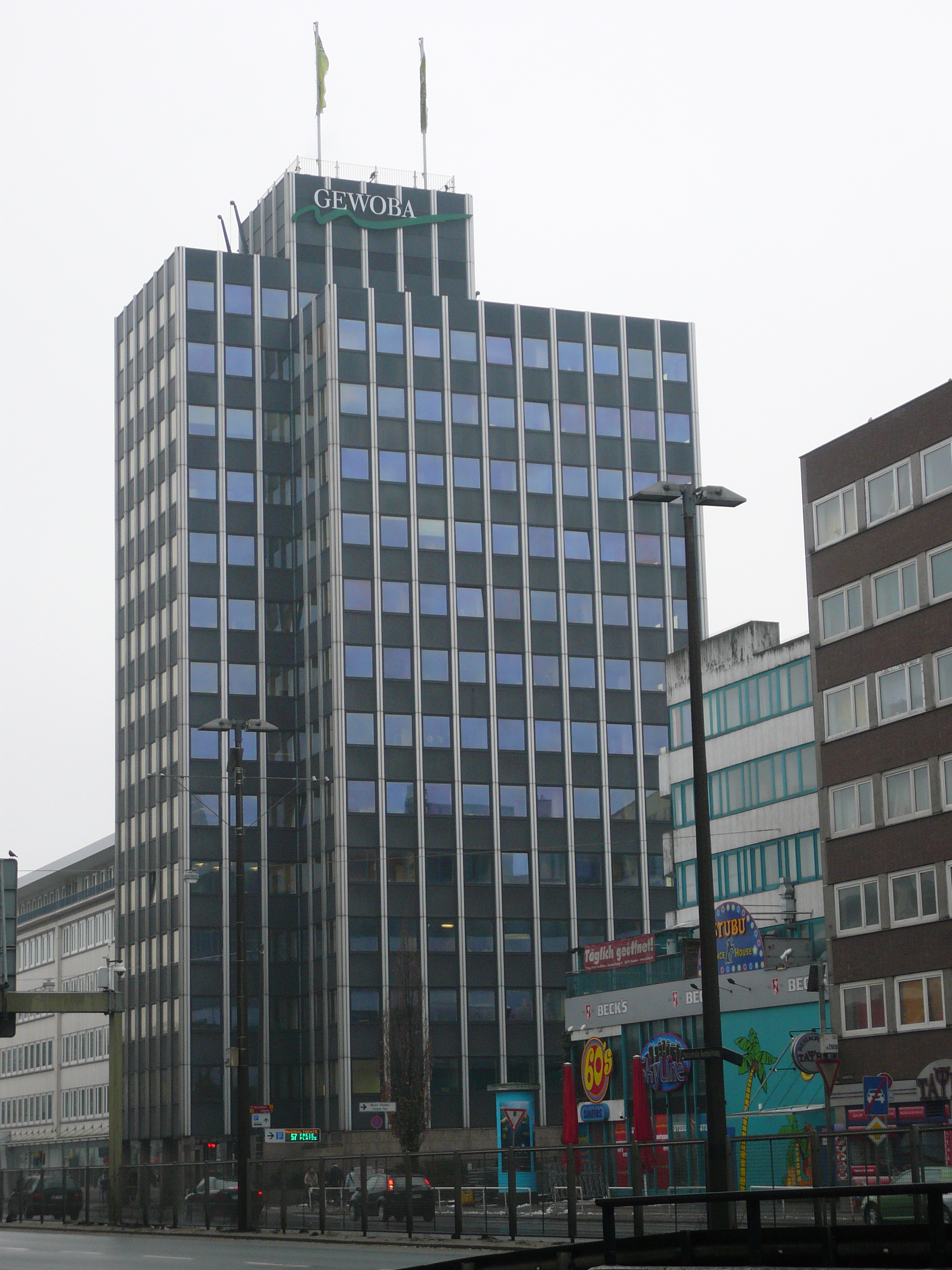 The high-rise of the GEWOBA, a housing association in Bremen, Germany